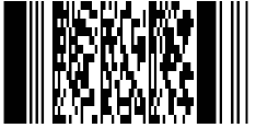 Text "Wikipedia" as PDF417 barcode